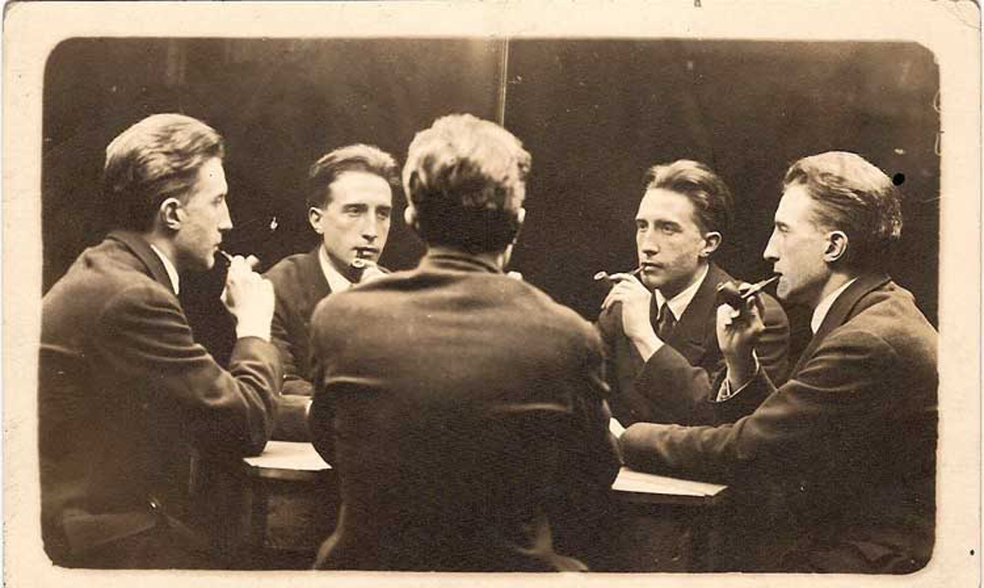 Five-Way Portrait of Marcel Duchamp (Portrait multiple de Marcel Duchamp), Broadway Photo Shop, New York City, 21 June 1917